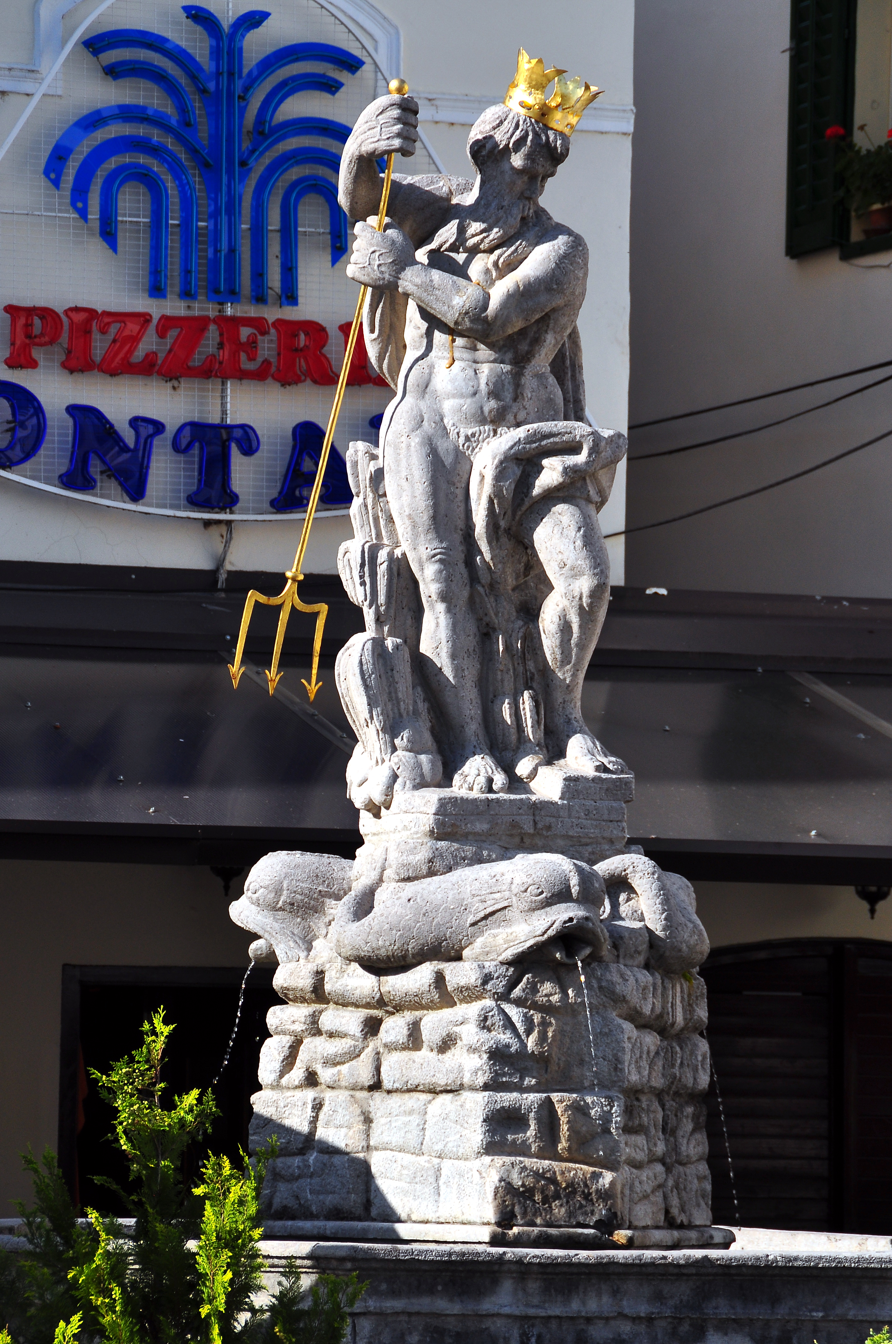 Neptune fountain (year of creation 1815) in Kanal ob Soči, Primorska, Slovenia